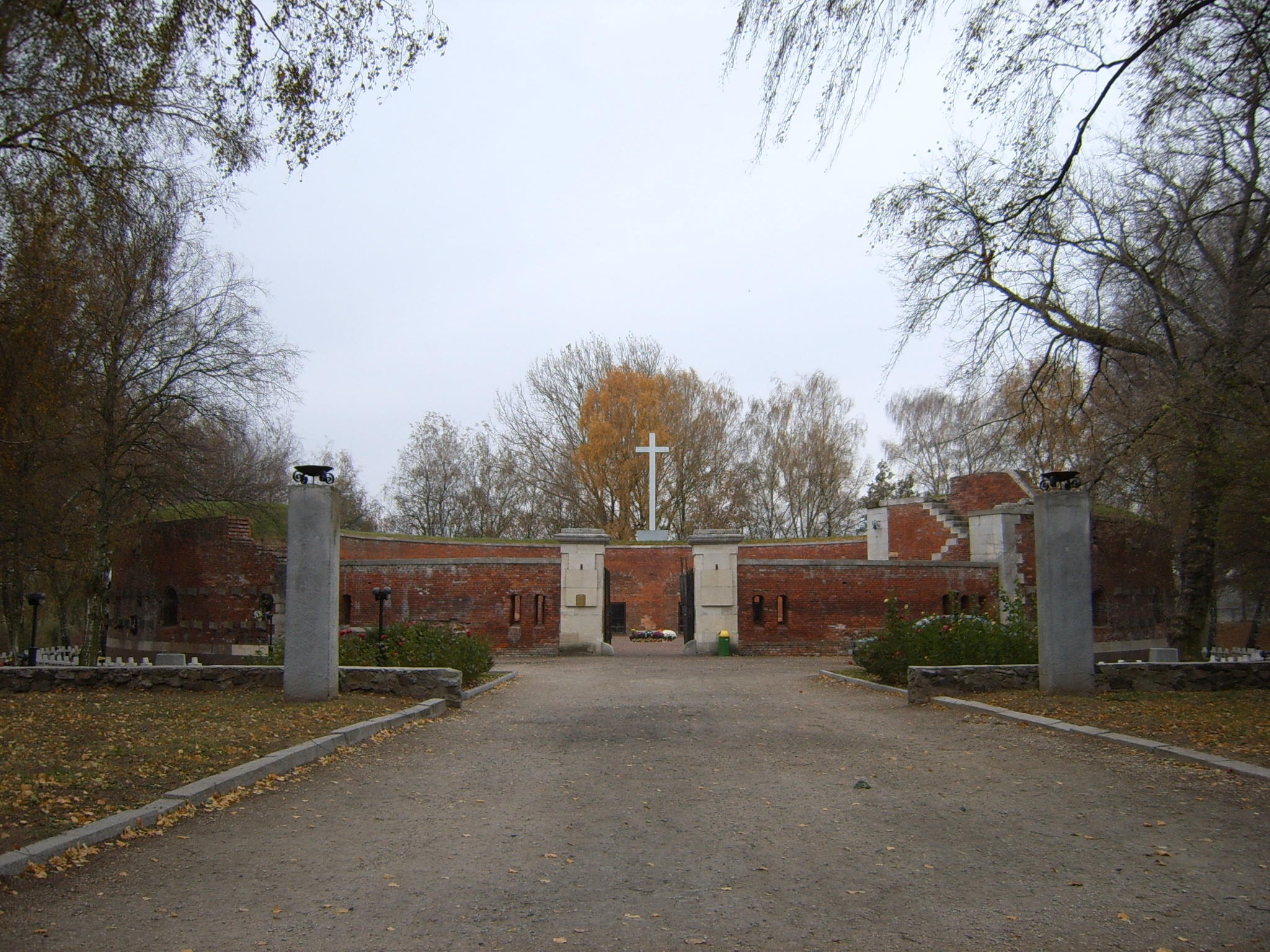 Rotunda Museum in Zamość